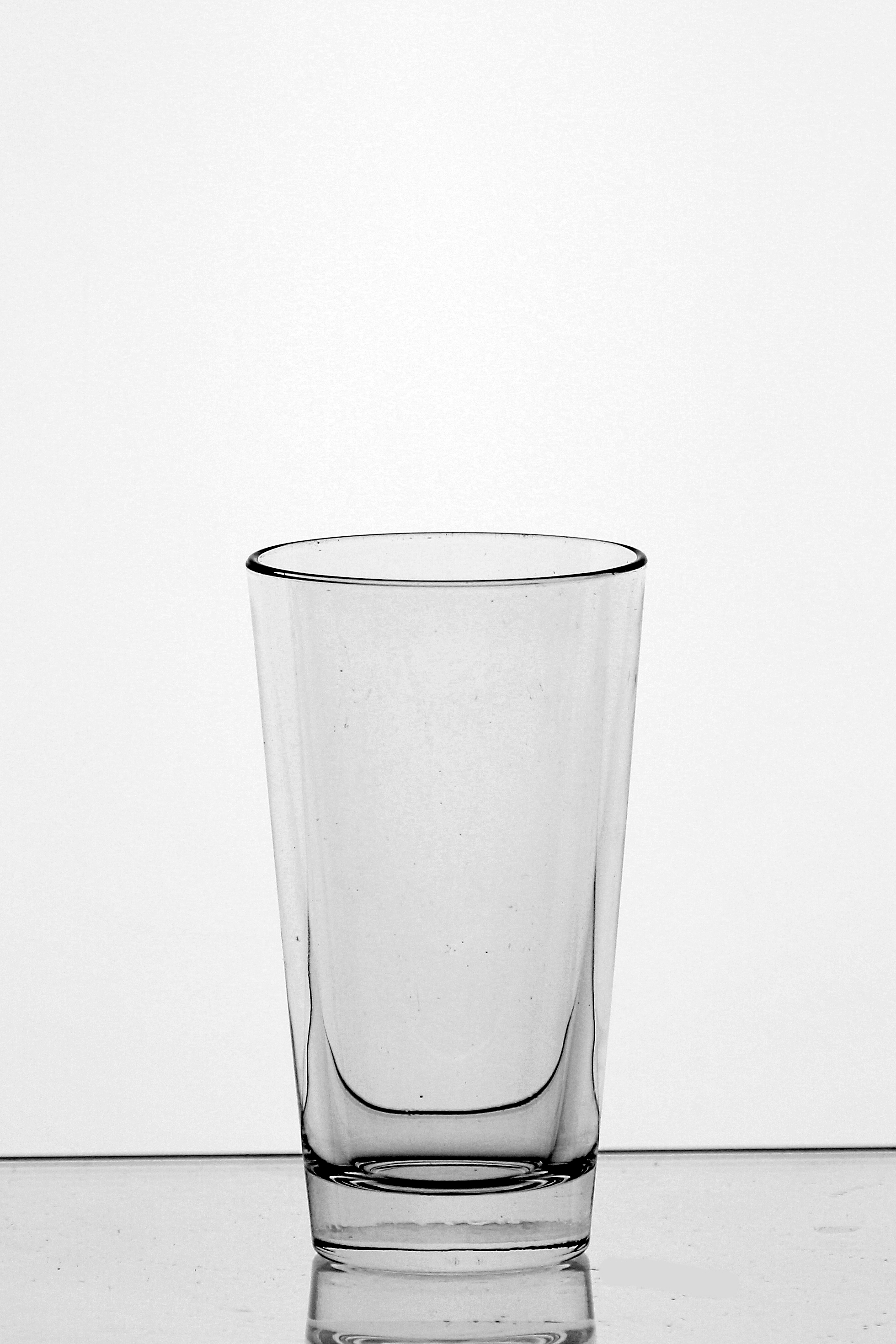 Cocktail glass.